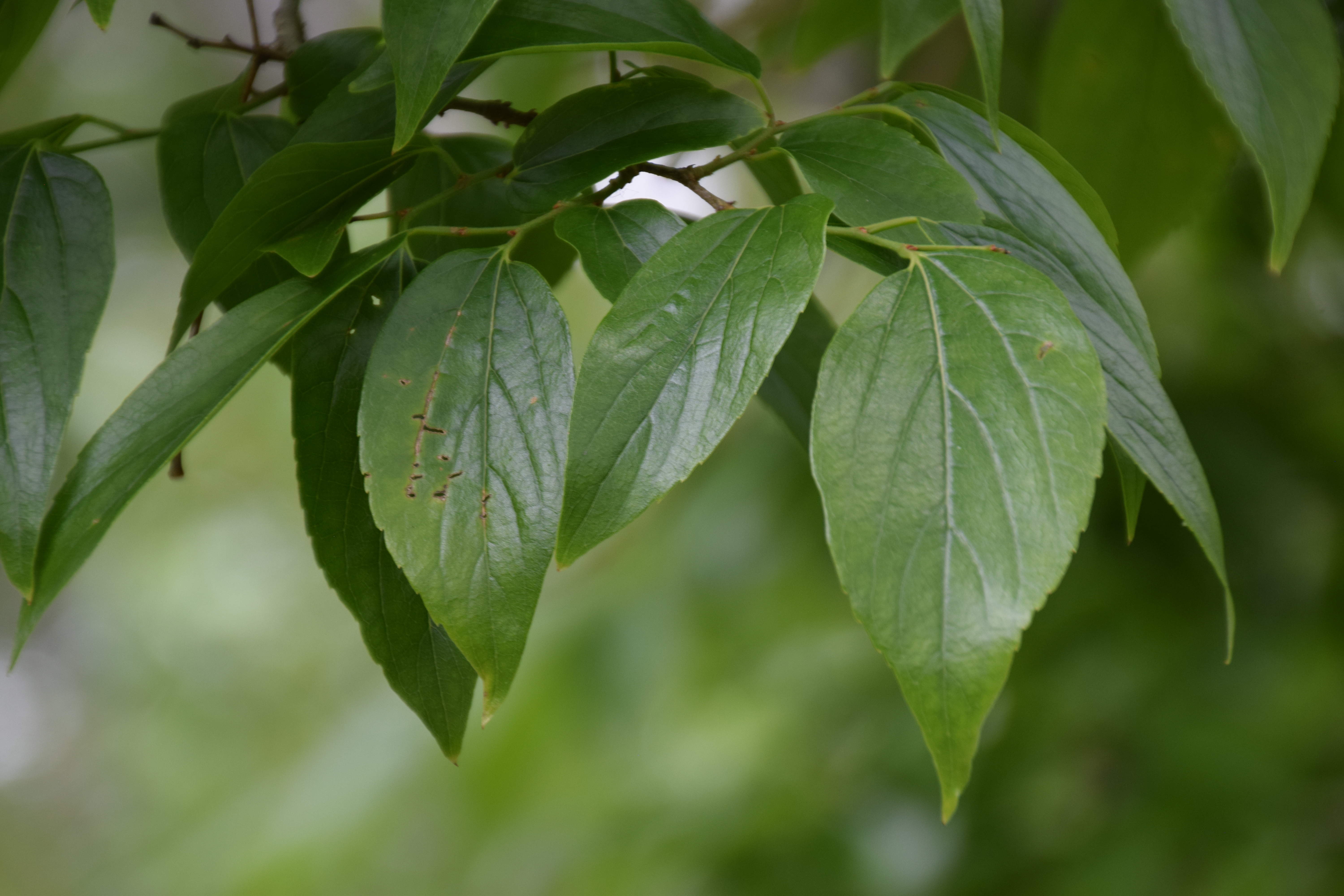 Celtis tetrandra in Eastwoodhill Arboretum, Gisborne Region, New Zealand